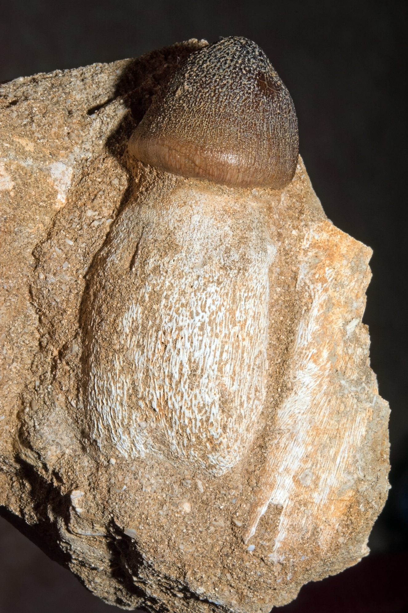 Globidens aegyptiacus Zdansky, 1934 - Ouled Abdoun, Khouribgha Province, Chaouia-Ouardigha Region, Morocco - Maastrichtian, Cretaceous (≈ -70,6 MA ± ≈ 0,6 MA)